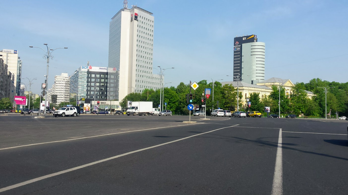 Victory Square, Bucharest: Bucharest BRD Tower and Bucharest Tower Center